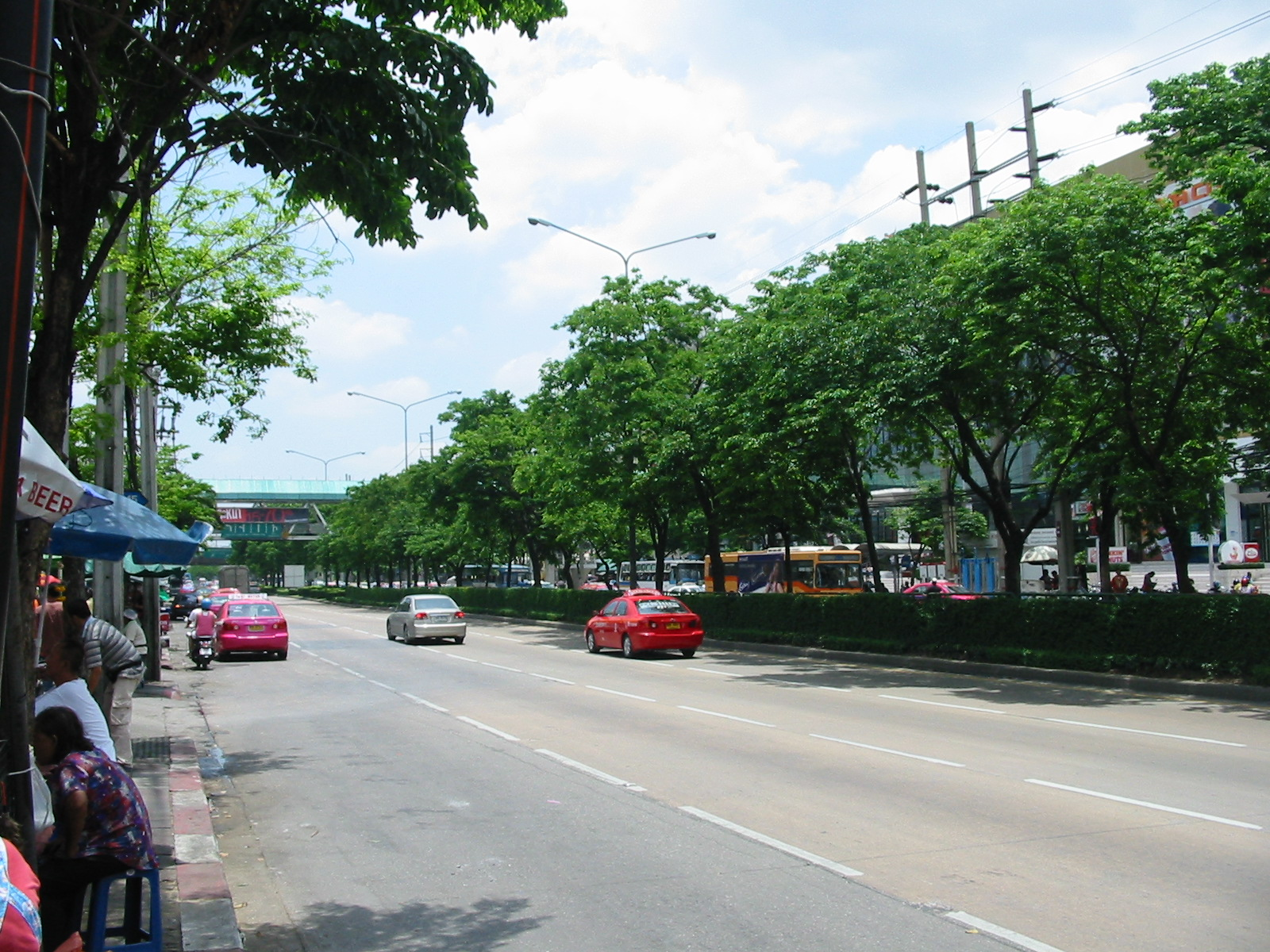 Thanon Ratchadaphisek